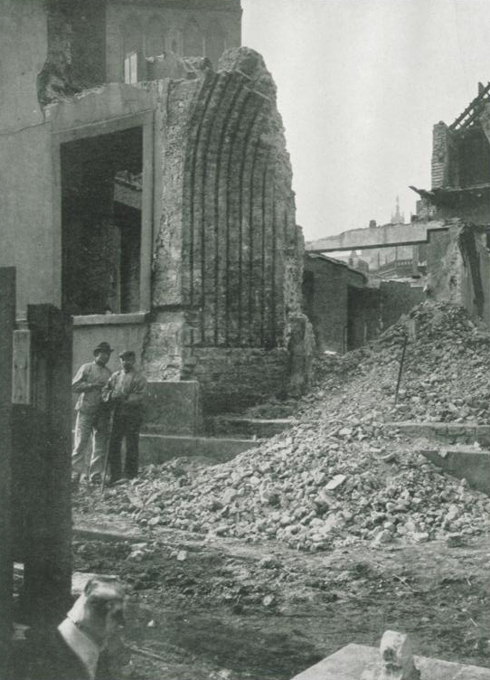 Relics of the main entrance of the great hall of the former archiepiscopal palace in the northern wall of the Stadthaus (municipal administration building), built in 1818/1819 an dismantled in 1919. Since then, there is the "New Town Hall", also a municipal administration buliding.